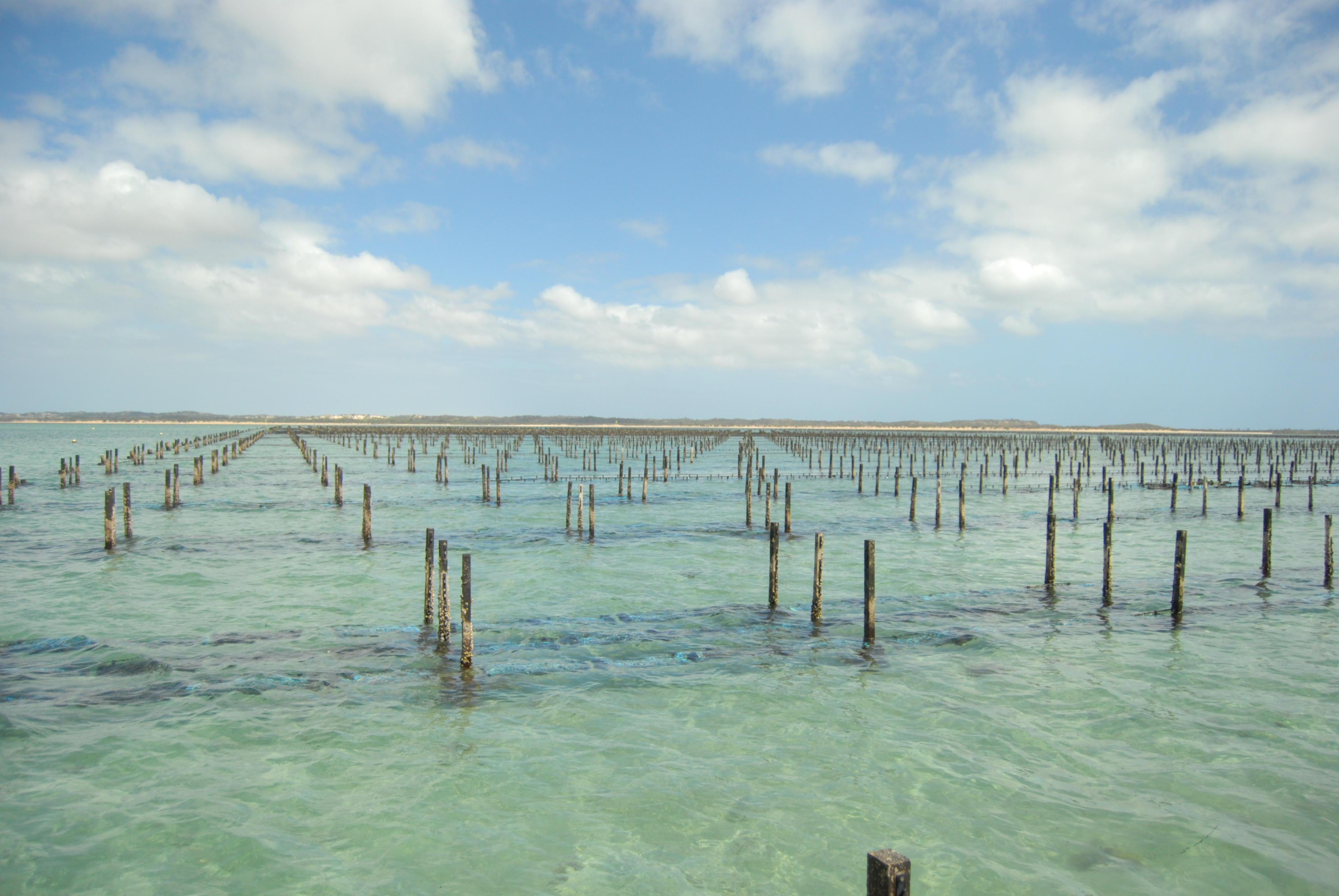 Oyster lease in South Australia using the 'Adjustable Longline System'